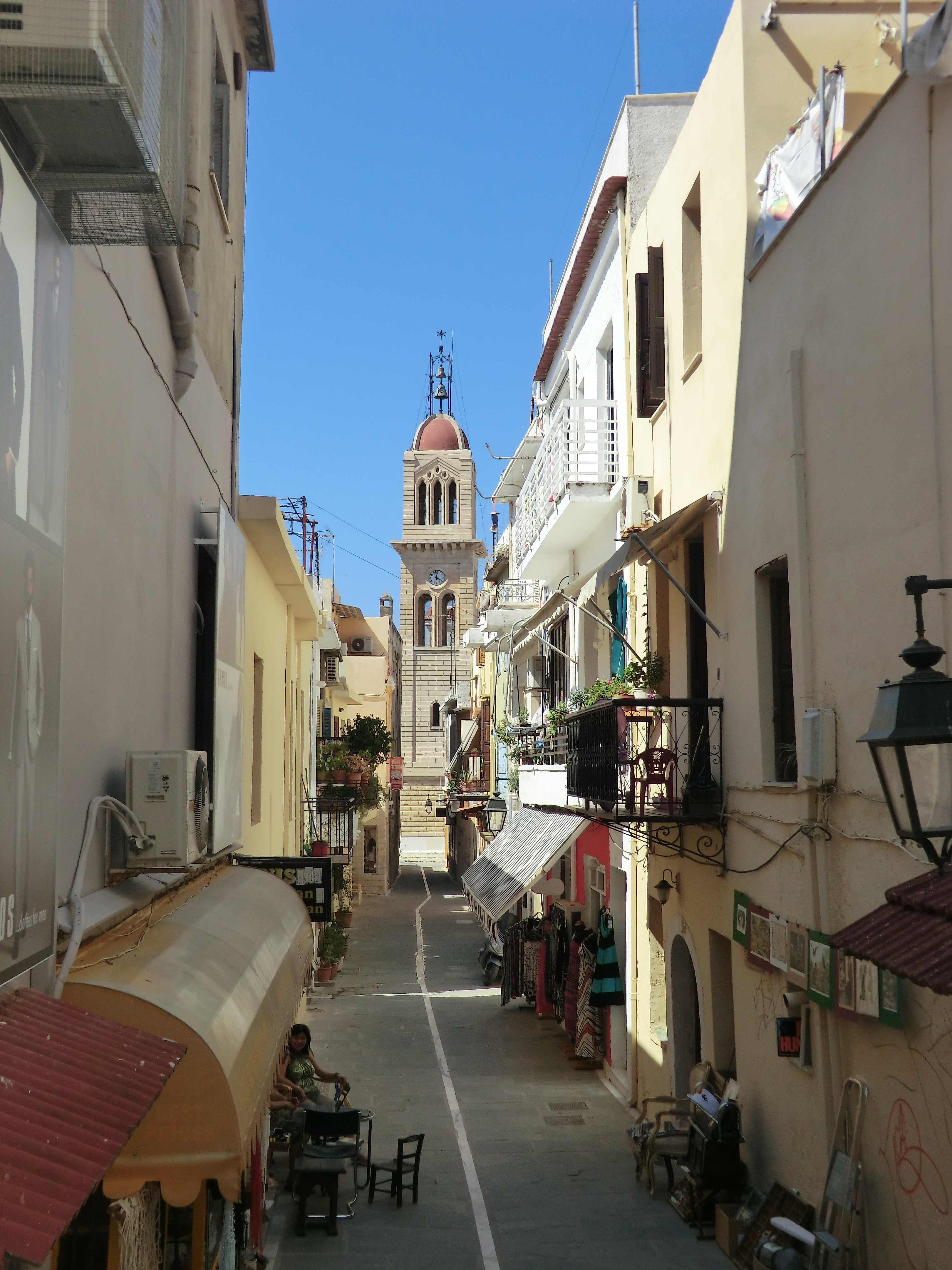 Bell tower of church Megalos Antonios